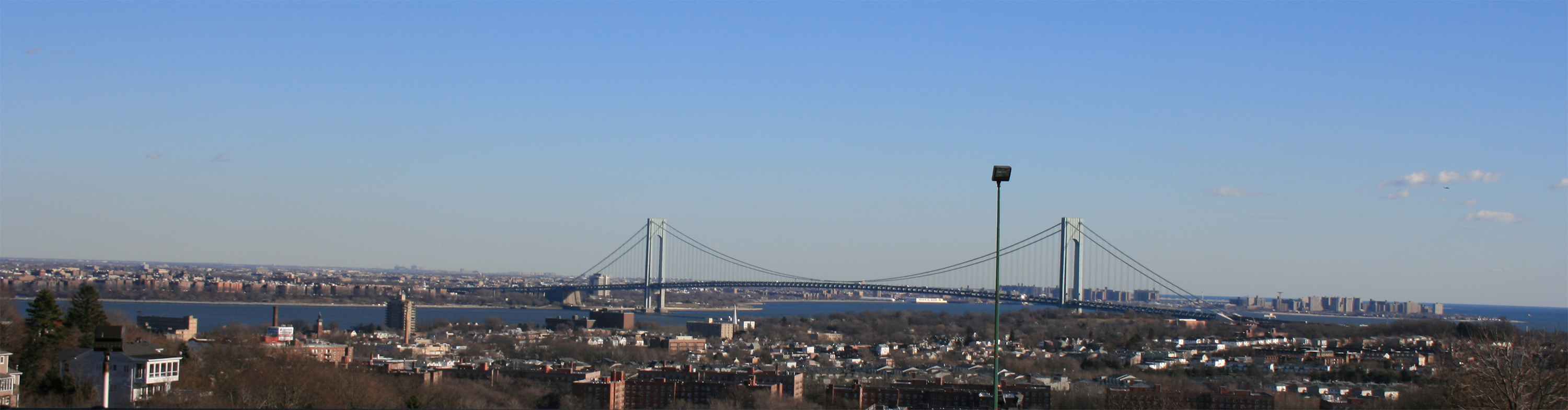 Verrazano-Narrows Bridge in New York City (likely shot from the campus of Wagner College, Staten Island)